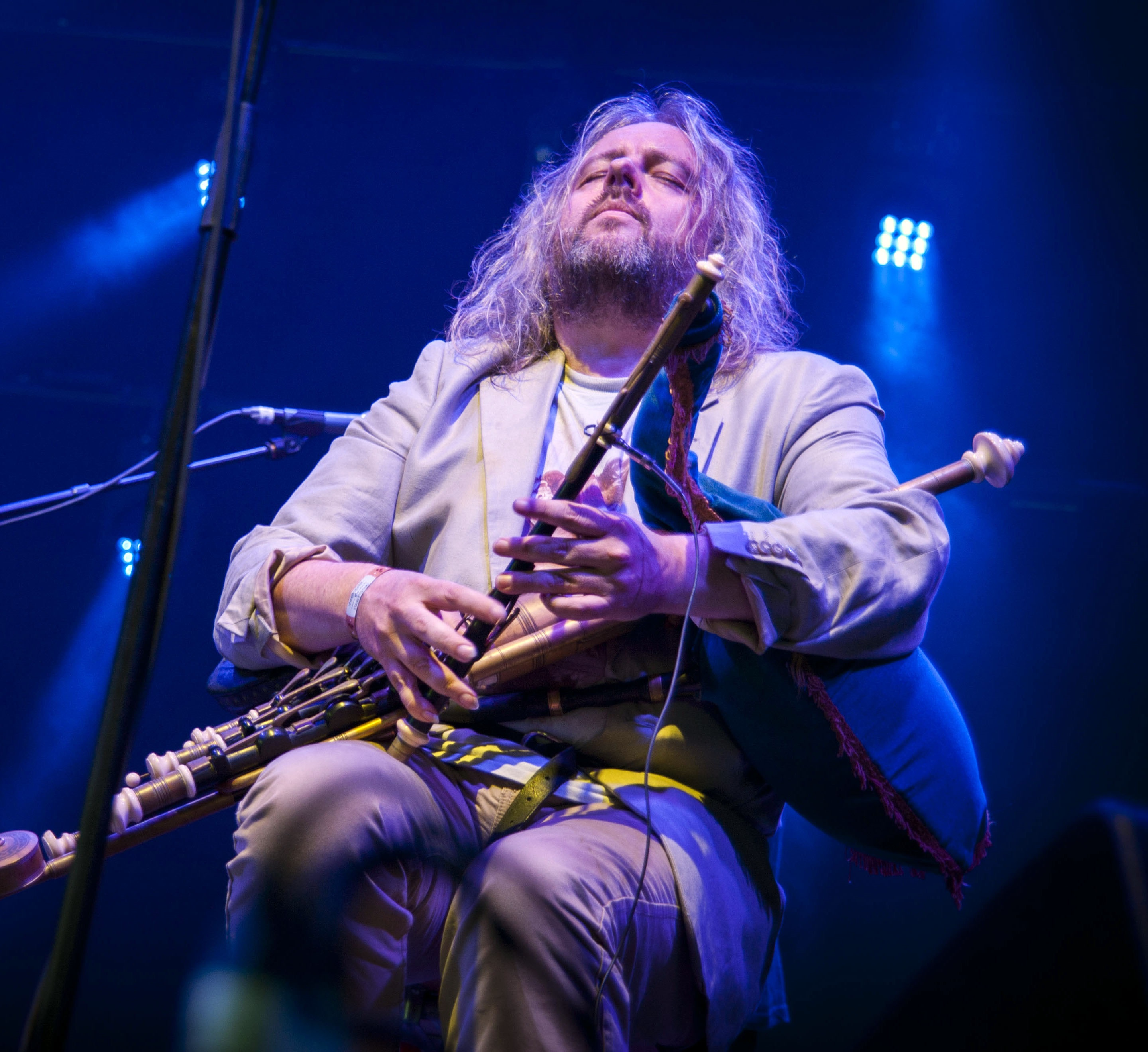 Troy Donockley (with The Bad Shepherds) at the Under the Stars festival, Cawthorne.